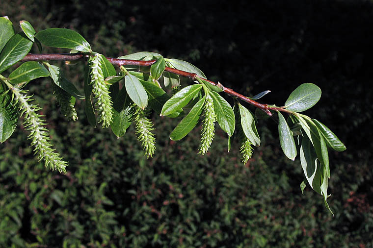 Salix laevigata at Rancho Sierra Vista/Satwiwa: Satwiwa Loop Trail, Santa Monica Mountains National Recreation Area, California, USA. NPS photo, no copyright.